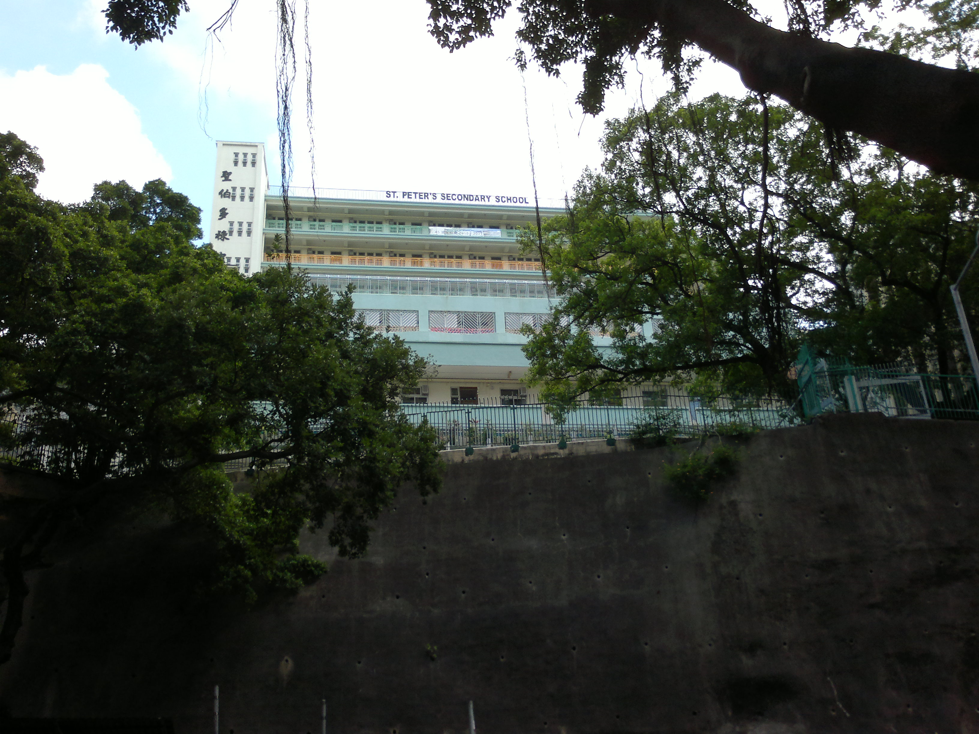 St Peter's Secondary School